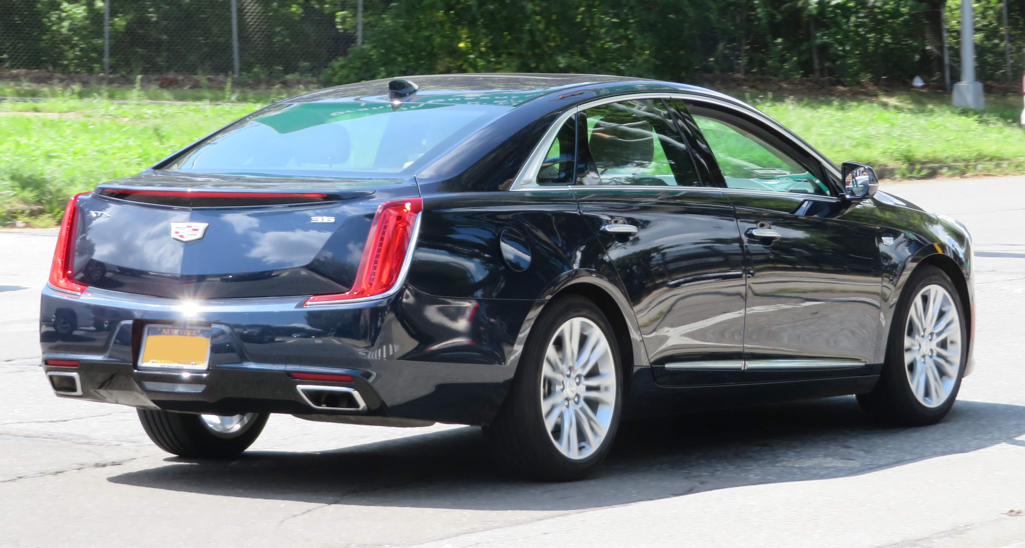 Photographed in Queens, New York